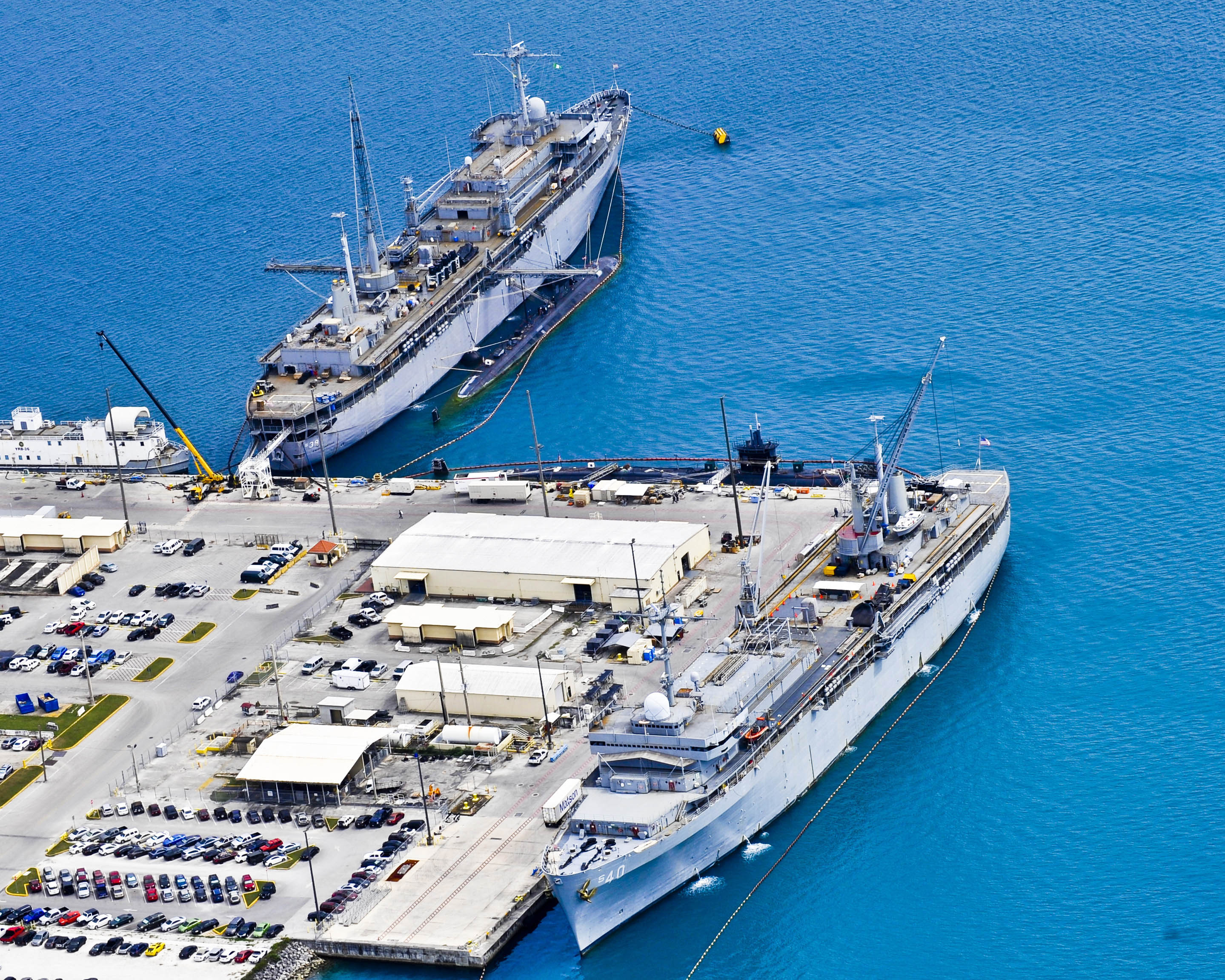 USS Emory S. Land (AS-39) and USS Frank Cable (AS-40), the U.S. Navy's only active submarine tenders, are moored in their homeport of Guam. USS Pasadena (SSN-752) is visible alongside of Emory S. Land. The ships provide maintenance, hotel services and logistical support to submarines and surface ships in the U.S. 5th and 7th Fleet areas of operations.